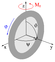 a moment applied perpendicularly to fly wheel